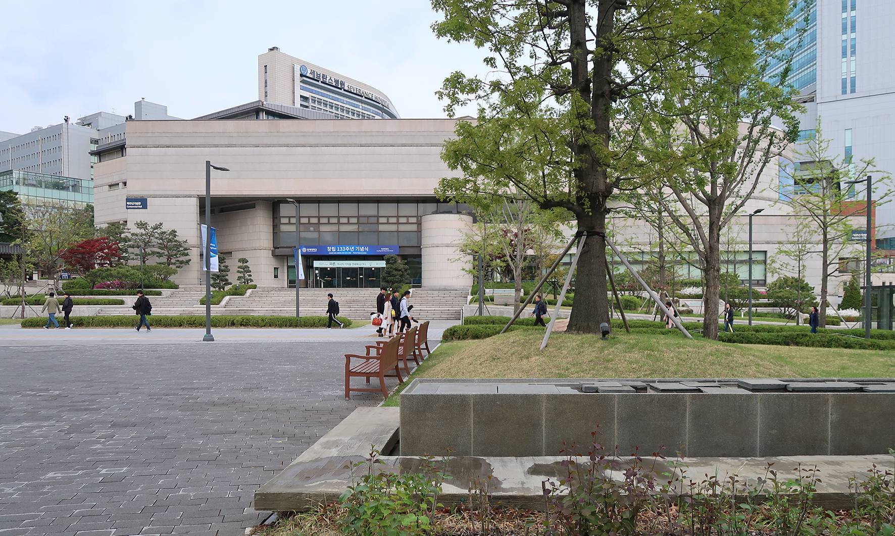 Yonsei University Centennial Hall, Yonsei University Museum